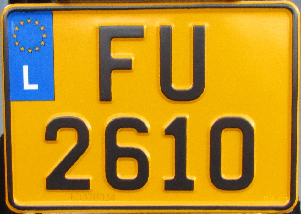 Luxembourg motorcycle plate, seen in Liechtenstein